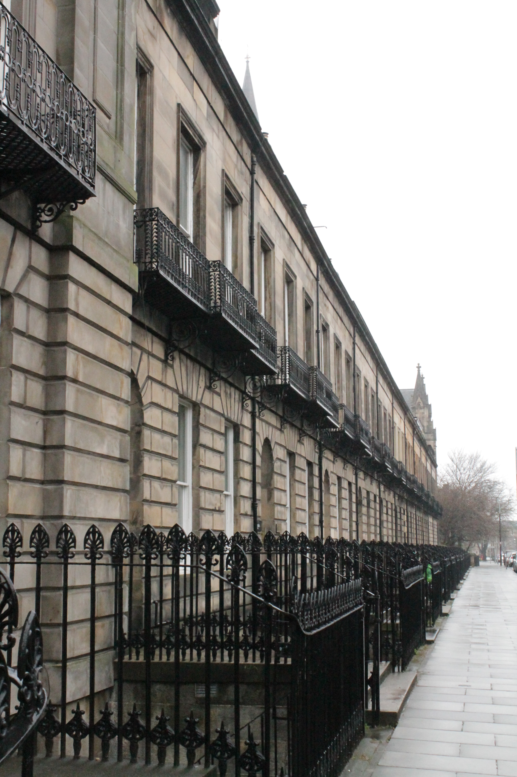 Manor Place, Edinburgh (west side)